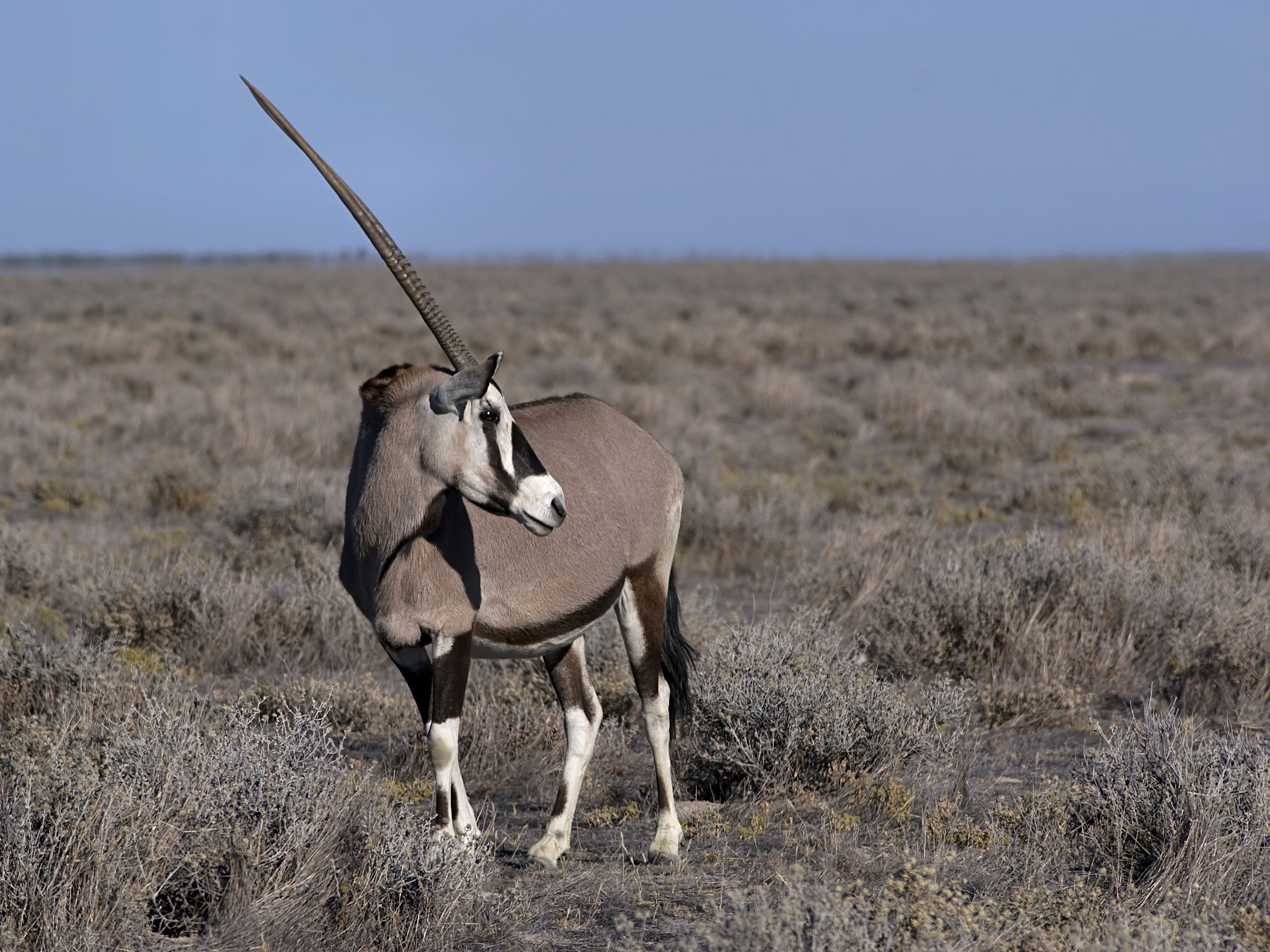 Gemsbok near Wolfsnes, Western Etosha, Namibia.